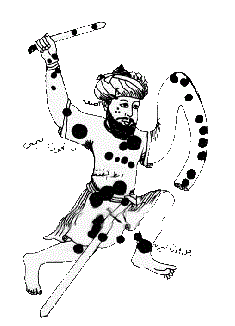 A drawing from Abd al-Rahman al-Sufi, that depicts the Orion constellation